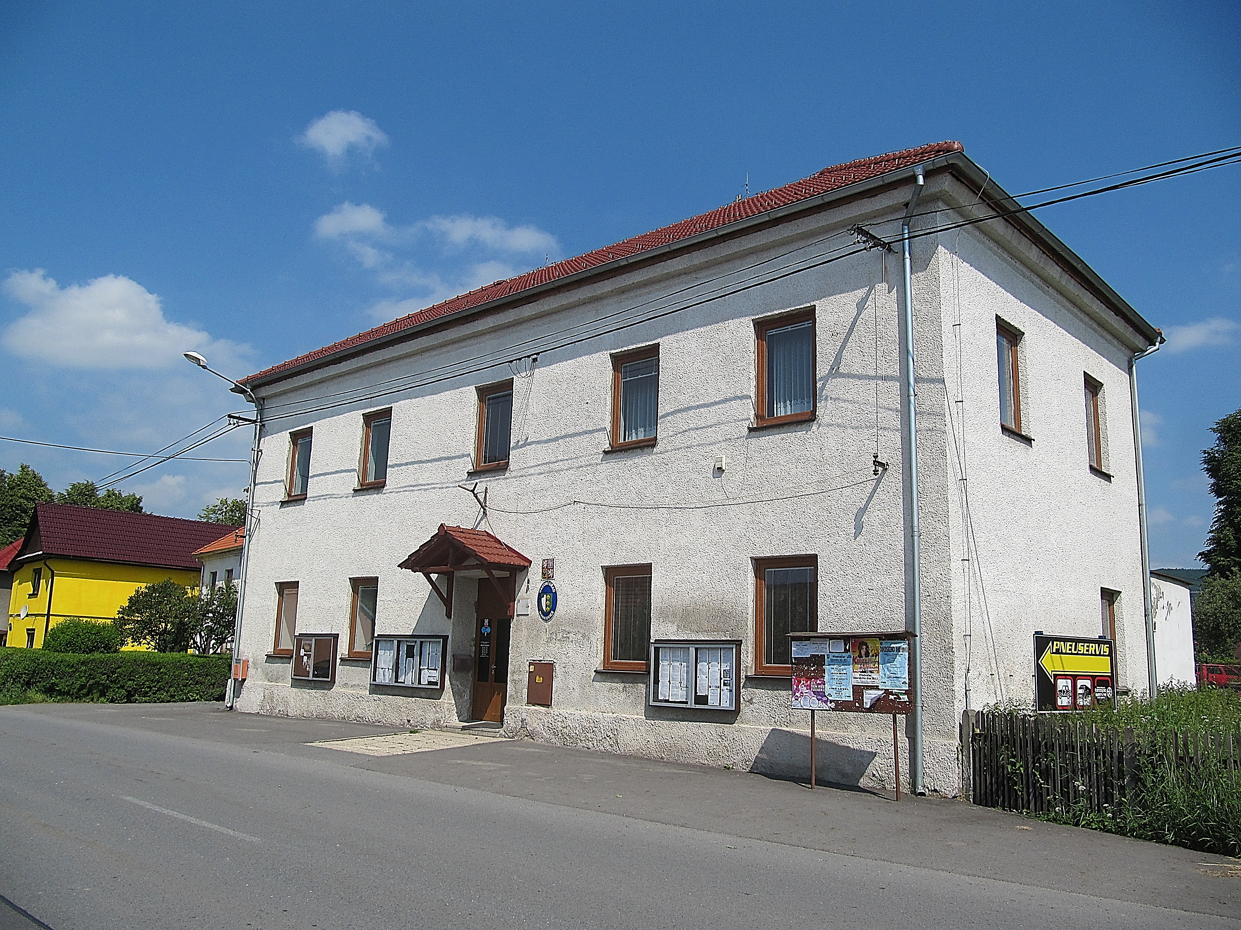 Mankovice, Nový Jičín District, Czech Republic. Municipal office.